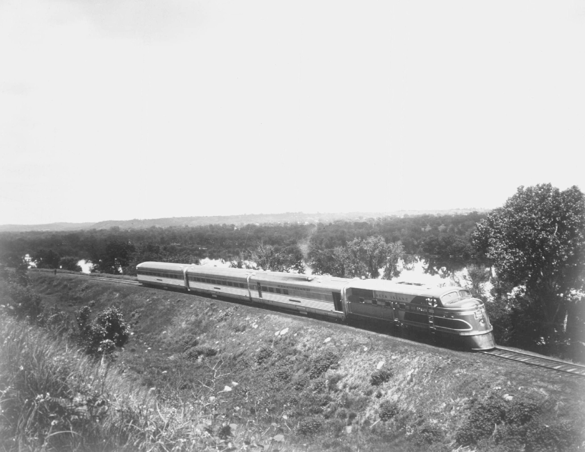 Photo of the Kansas City Rocket of the Rock Island, which traveled between Minneapolis, Minnesota and Kansas City.